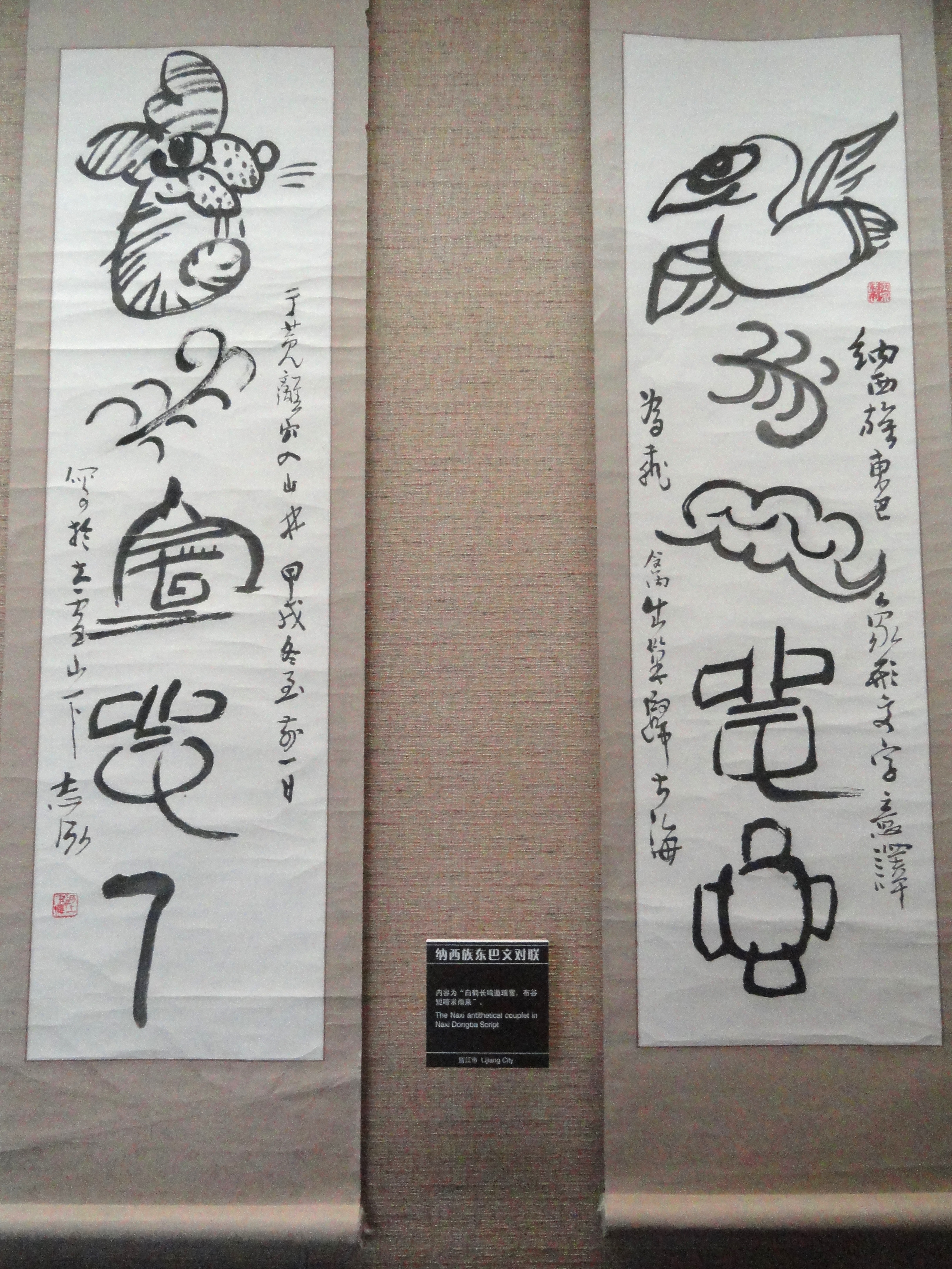 Couplet in Naxi Dongba script. Manuscripts / writing systems in the Yunnan Nationalities Museum, Kunming, Yunnan, China.